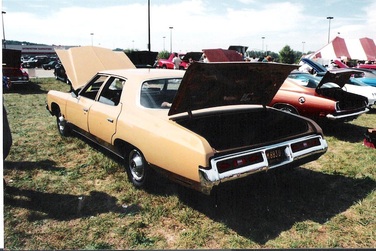 1972 Chevrolet Bel Air.